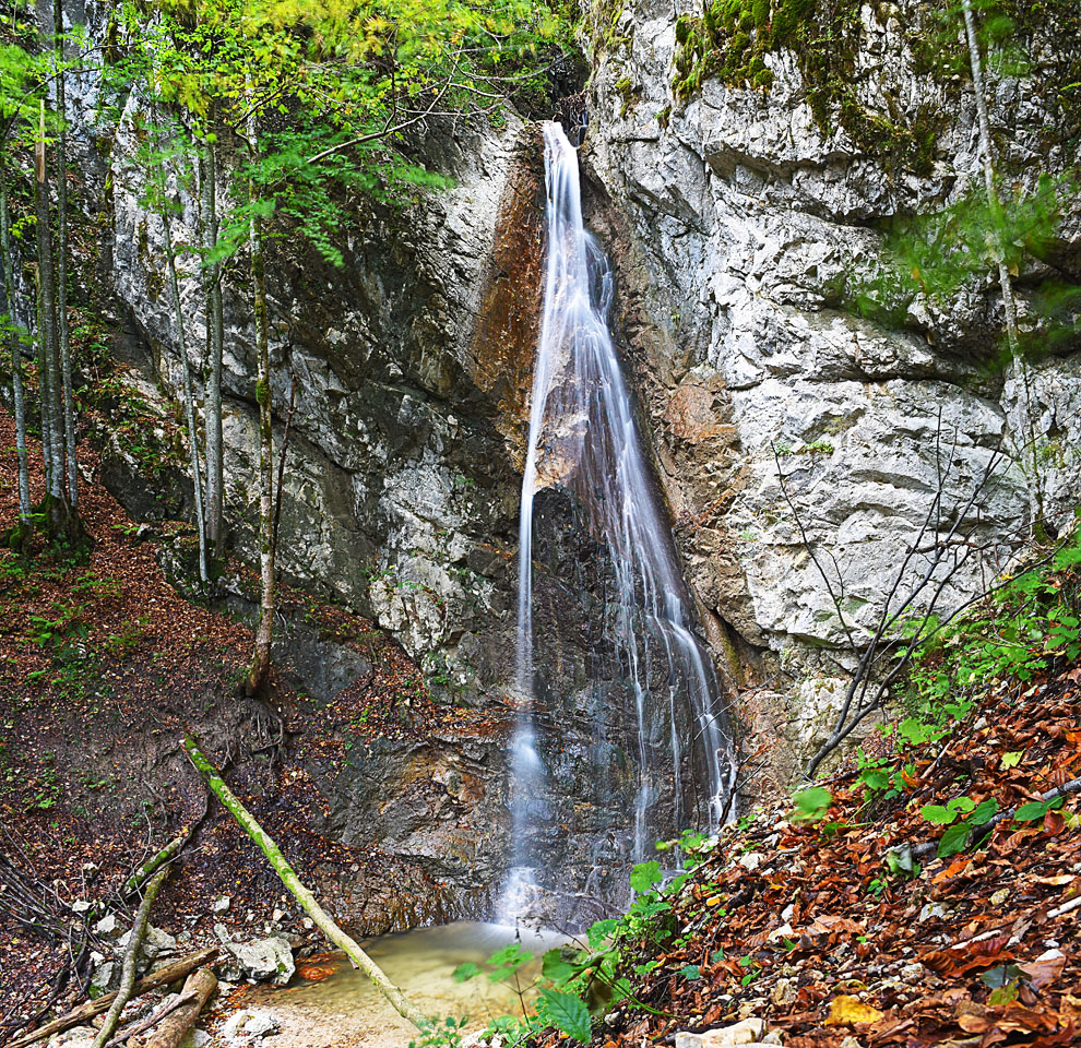 Tominčev slap (waterfall) near Podljubelj.